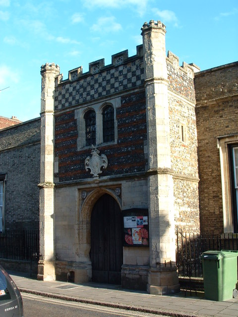 The Guildhall's porch in Bury St Edmunds, Suffolk, England. A Grade I listed building.